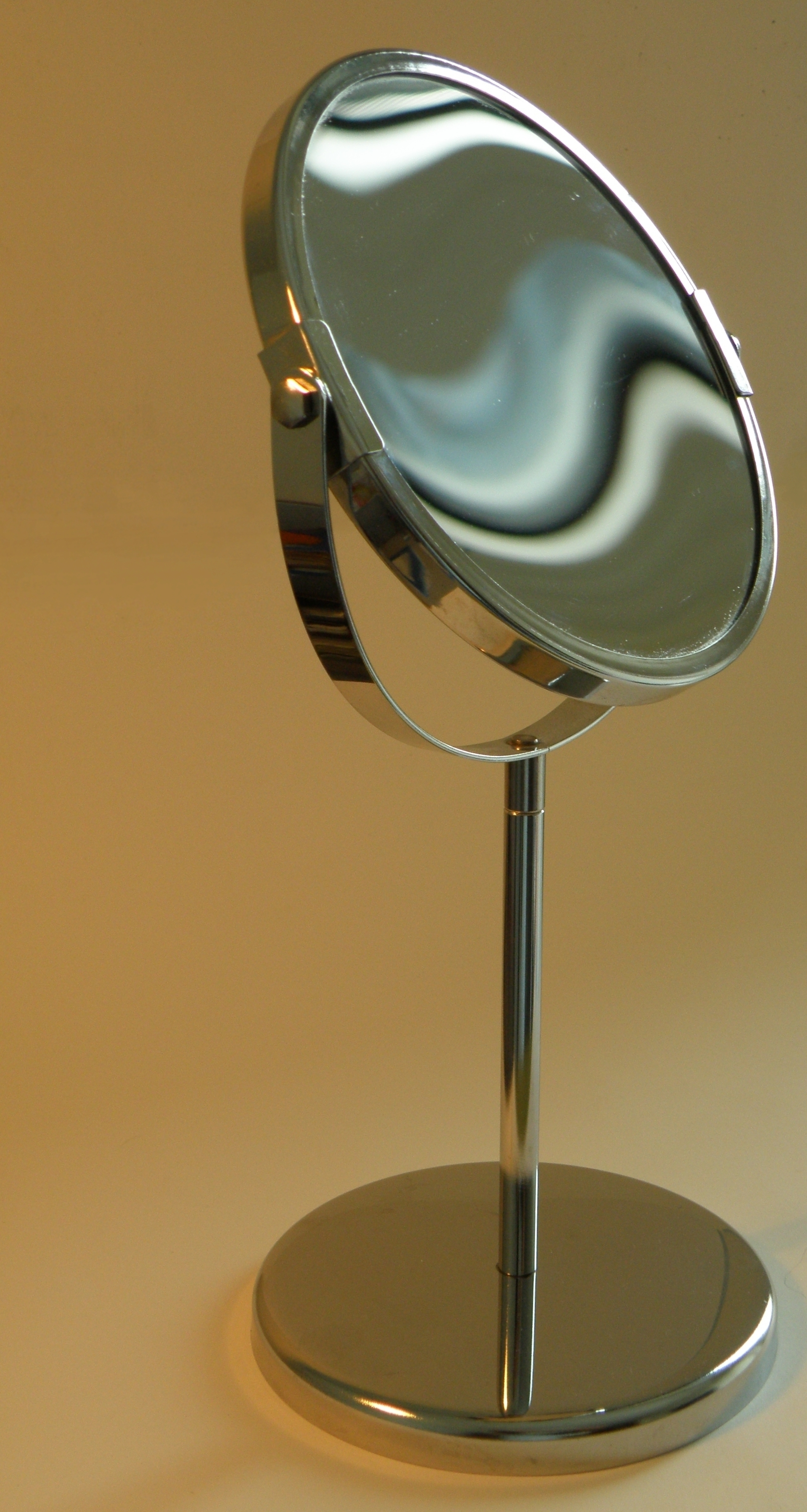 A magnifying cosmetic mirror, round and double-sided (a side, the not magnifying one, is not visible in the image).